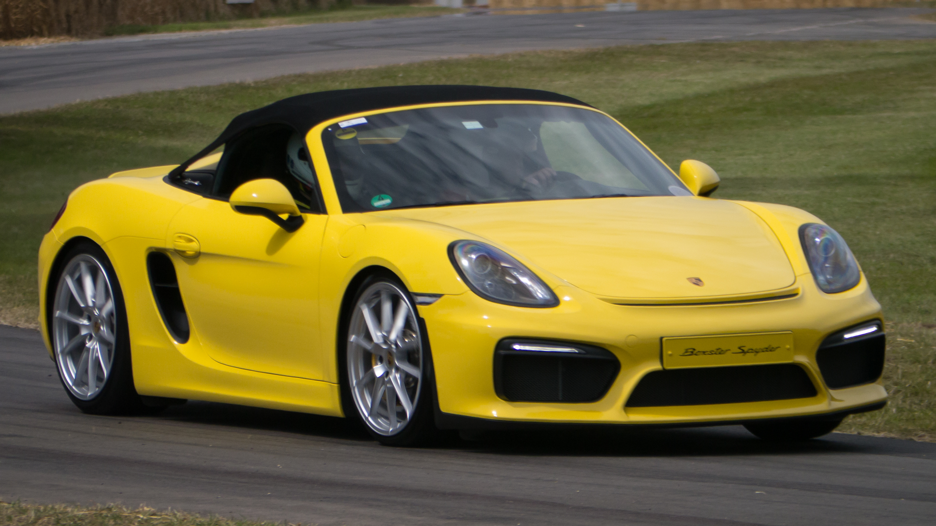 A 2015 Porsche Boxster Spyder 981 on track.